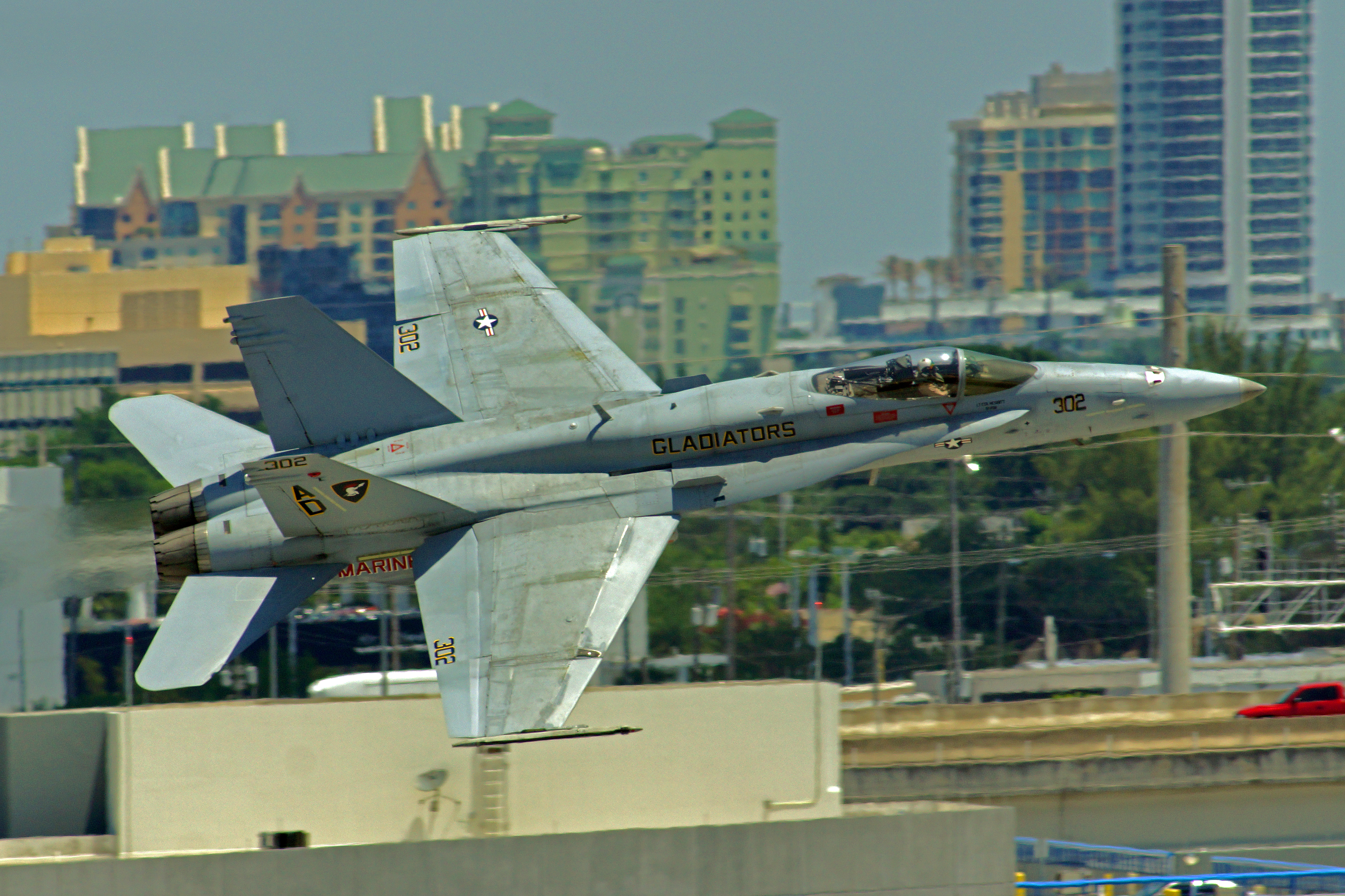 FLL USMC FA-18C VFA-106 Gladiators NAS Oceana JTPI FF 01215 - 2016 Ford Lauderdale Airshow